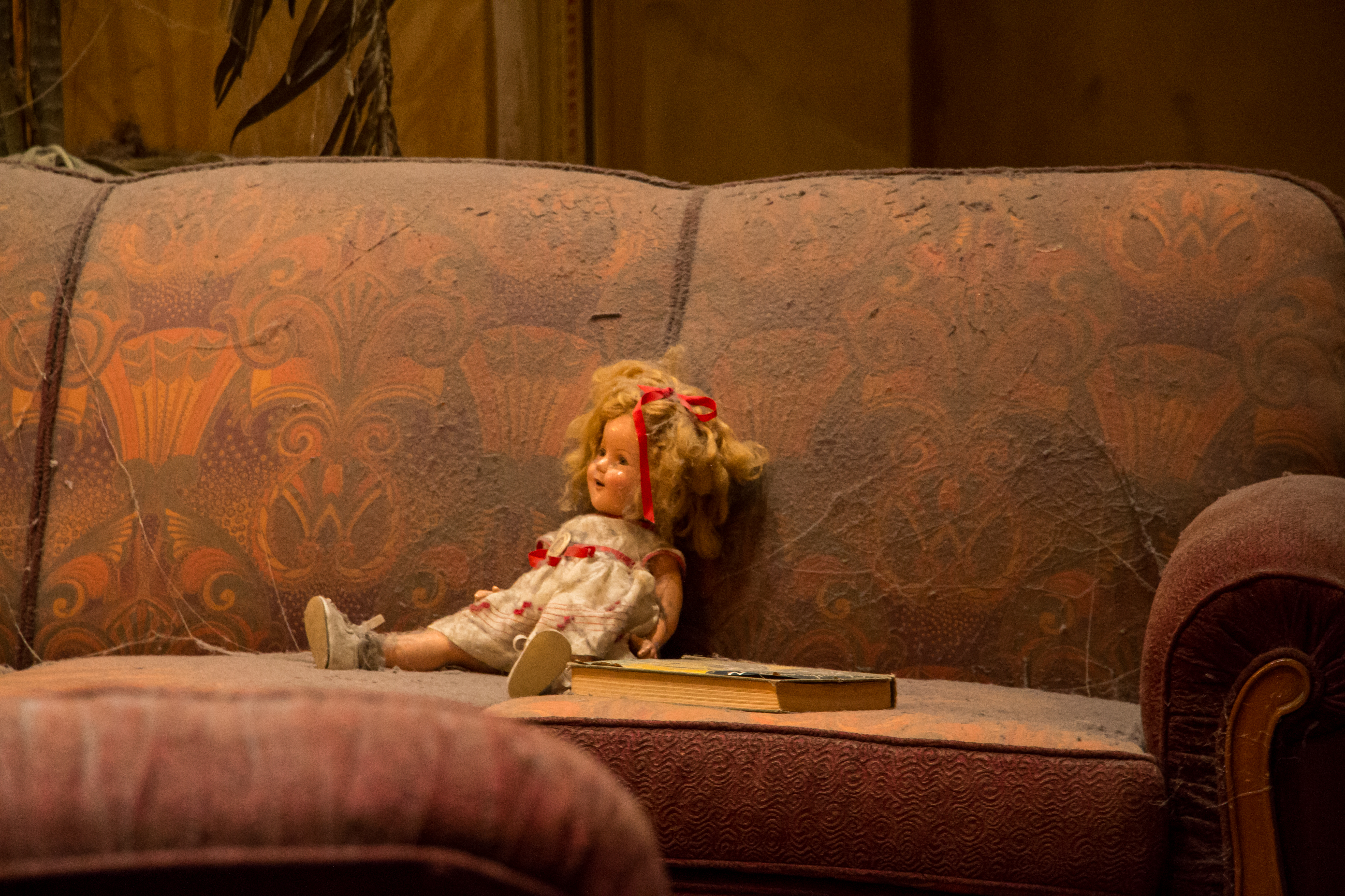 Inside the lobby at Tower of Terror in Disney California Adventure.